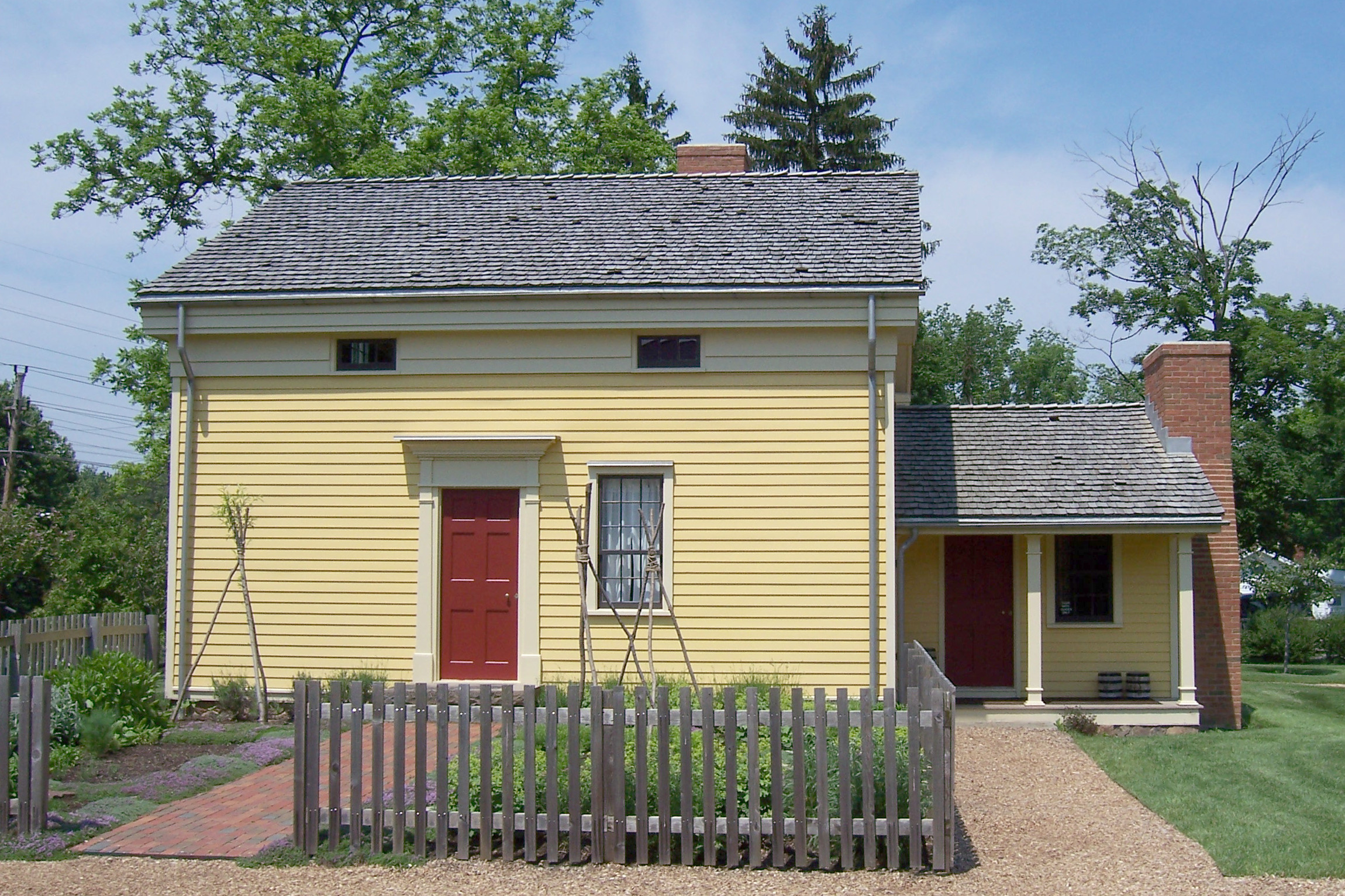 The restored home of Newel K. Whitney, located in Historic Kirtland Village, Kirtland, Ohio.